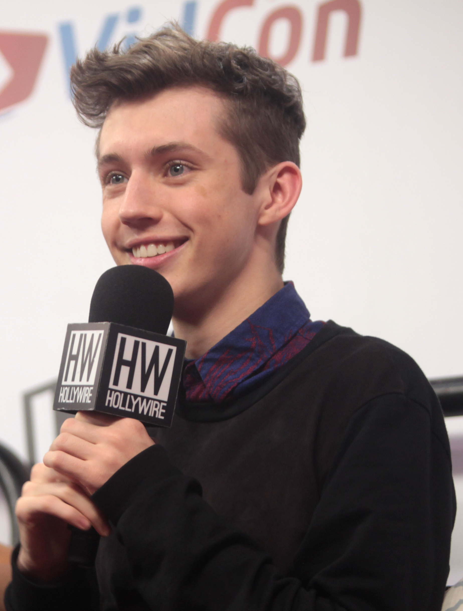 Chelsea Briggs (left) and Troye Sivan speaking at the 2014 VidCon at the Anaheim Convention Center in Anaheim, California.